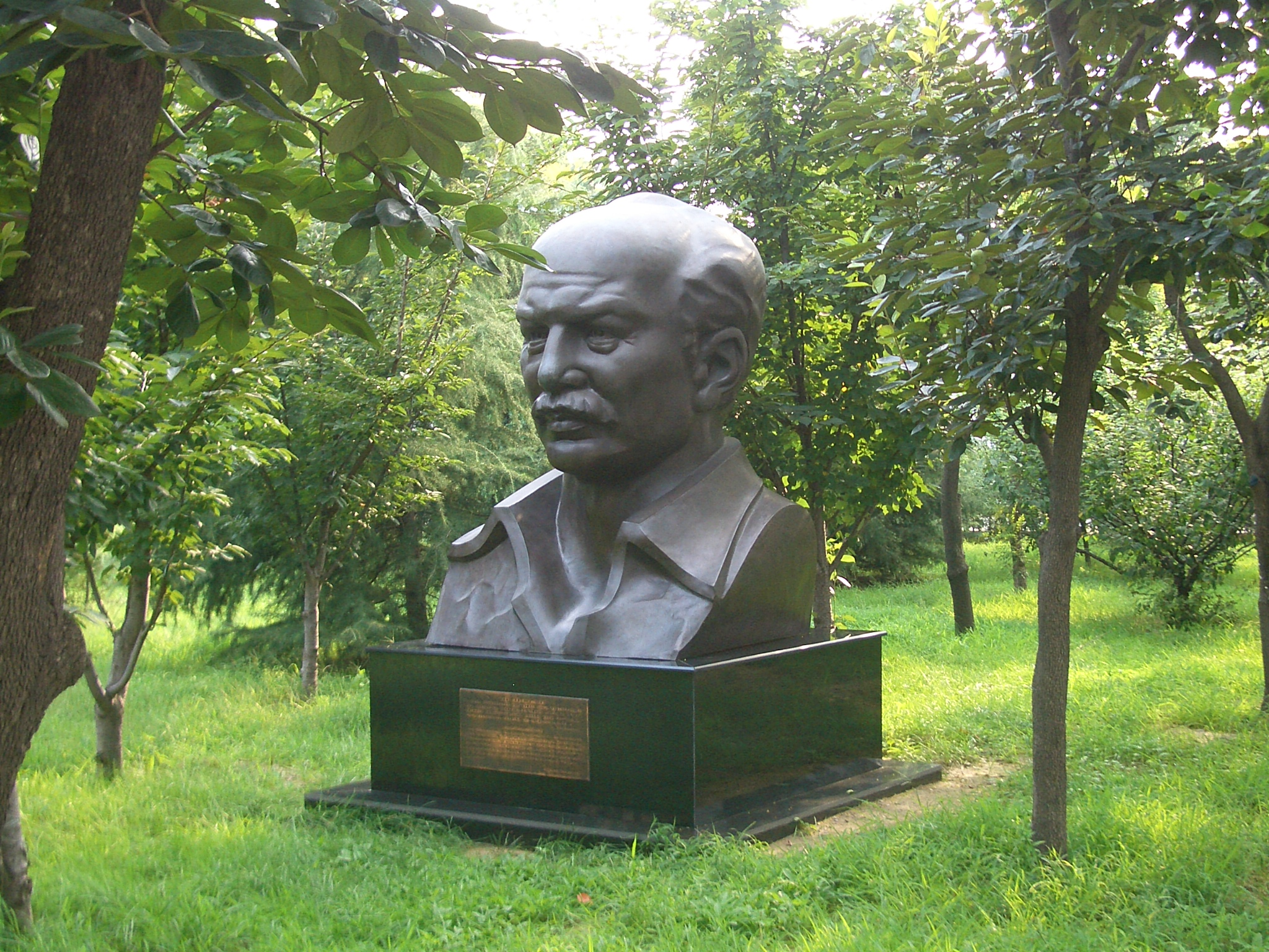 The head of the Canadian Communist doctor Norman Bethune: a monument in the park outside the Museum of the War Against Japan (inside Wanping Castle, near Marco Polo Bridge in Beijing)